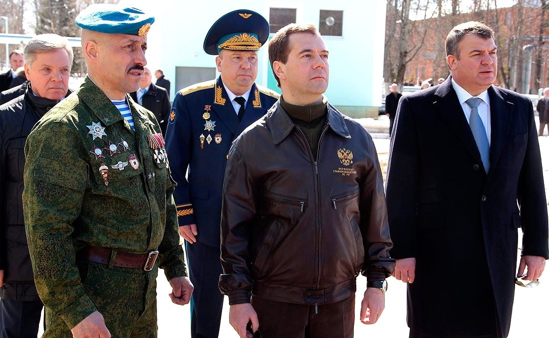 Visiting the Special Purpose Regiment of the Air Assault Forces’s base. Left to right: Moscow Region Governor Boris Gromov, Hero of Russia lieutenant colonel Anatoly Lebed, Air Assault Forces Commander Vladimir Shamanov, Dmitry Medvedev, Defence Minister Anatoly Serdyukov.